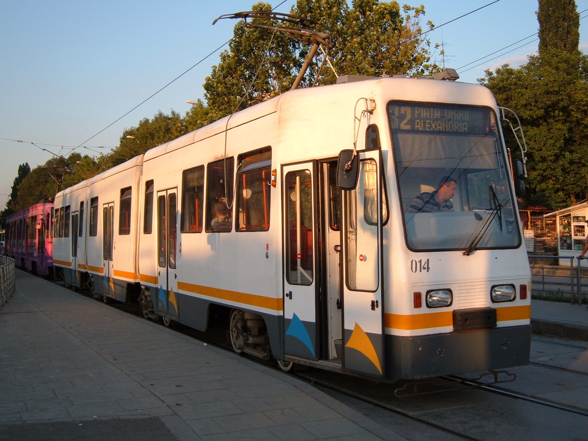 Tram in Bucharest, Romania (V3A type). RATB București company.